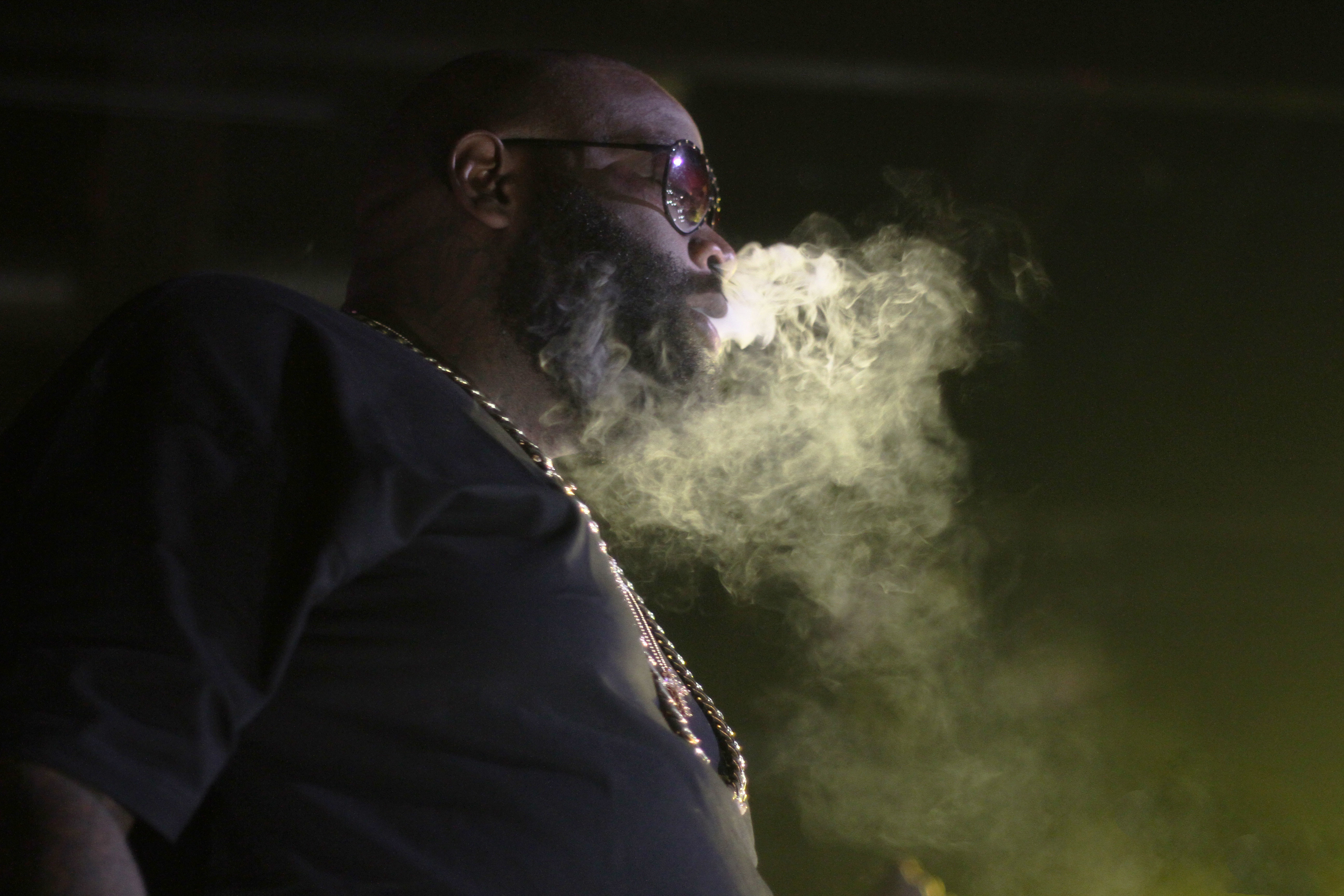 Rick Ross The Mastermind Tour June 15, 2014 Toronto Photography by Eddy James Rissling for The Come Up Show.